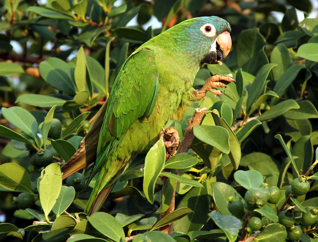 A feral Blue-crowned Parakeet in Pompano Beach, Florida, USA.